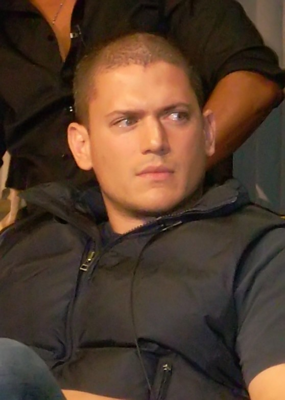 Actor Wentworth Miller in October 2008